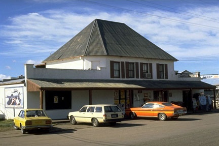 Former Maid of Australia hotel, later becoming Millers Store. Photo c1981